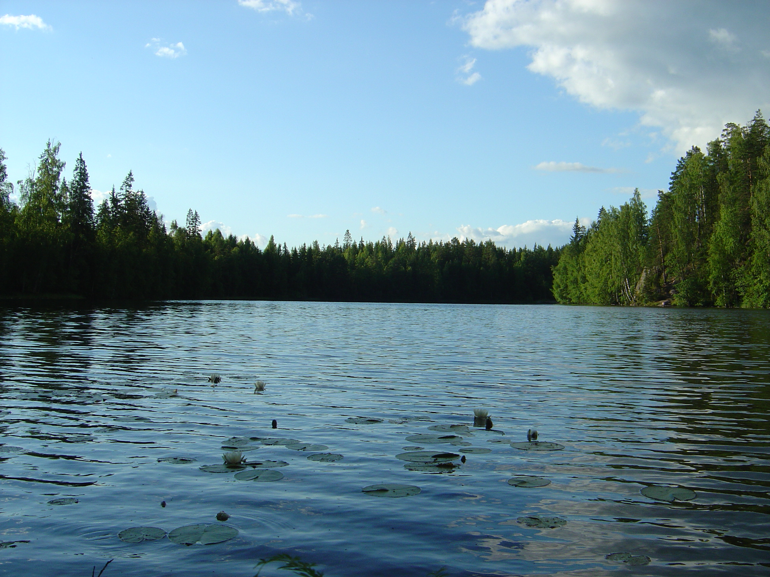 Lake Sontiainen in Karkkila, Finland